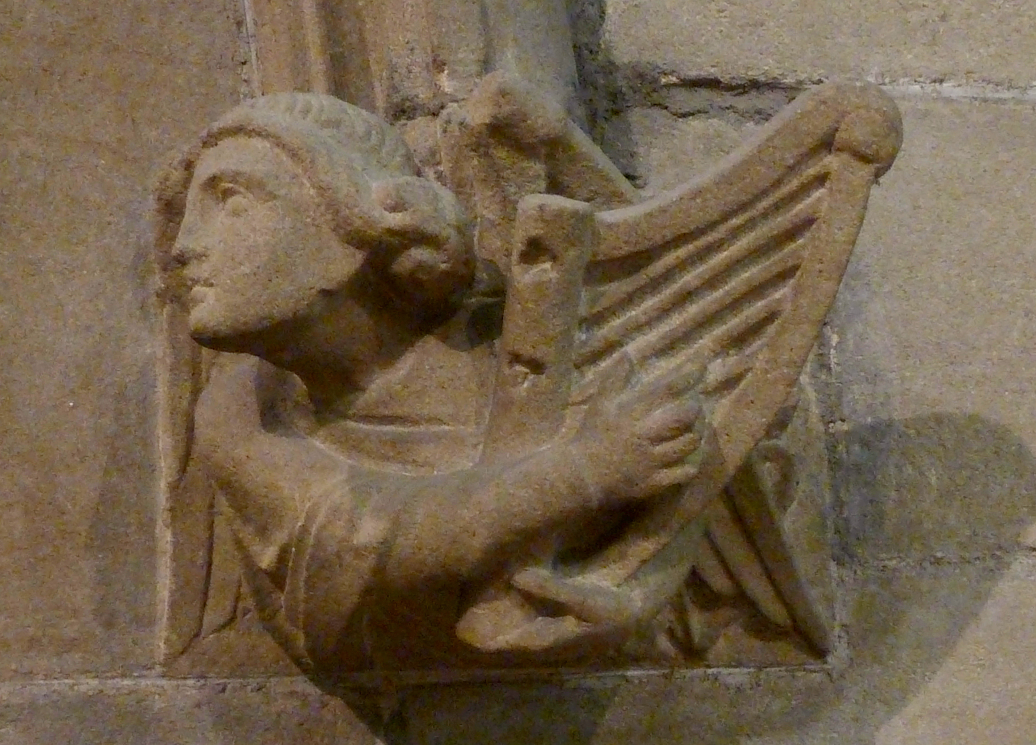 St Michael and All Angels Church, Beckwithshaw, North Yorkshire, England. Carving on east side of organ arch in chancel. It is different from its partner-carving on the west side of the arch, in accordance with gothic style.